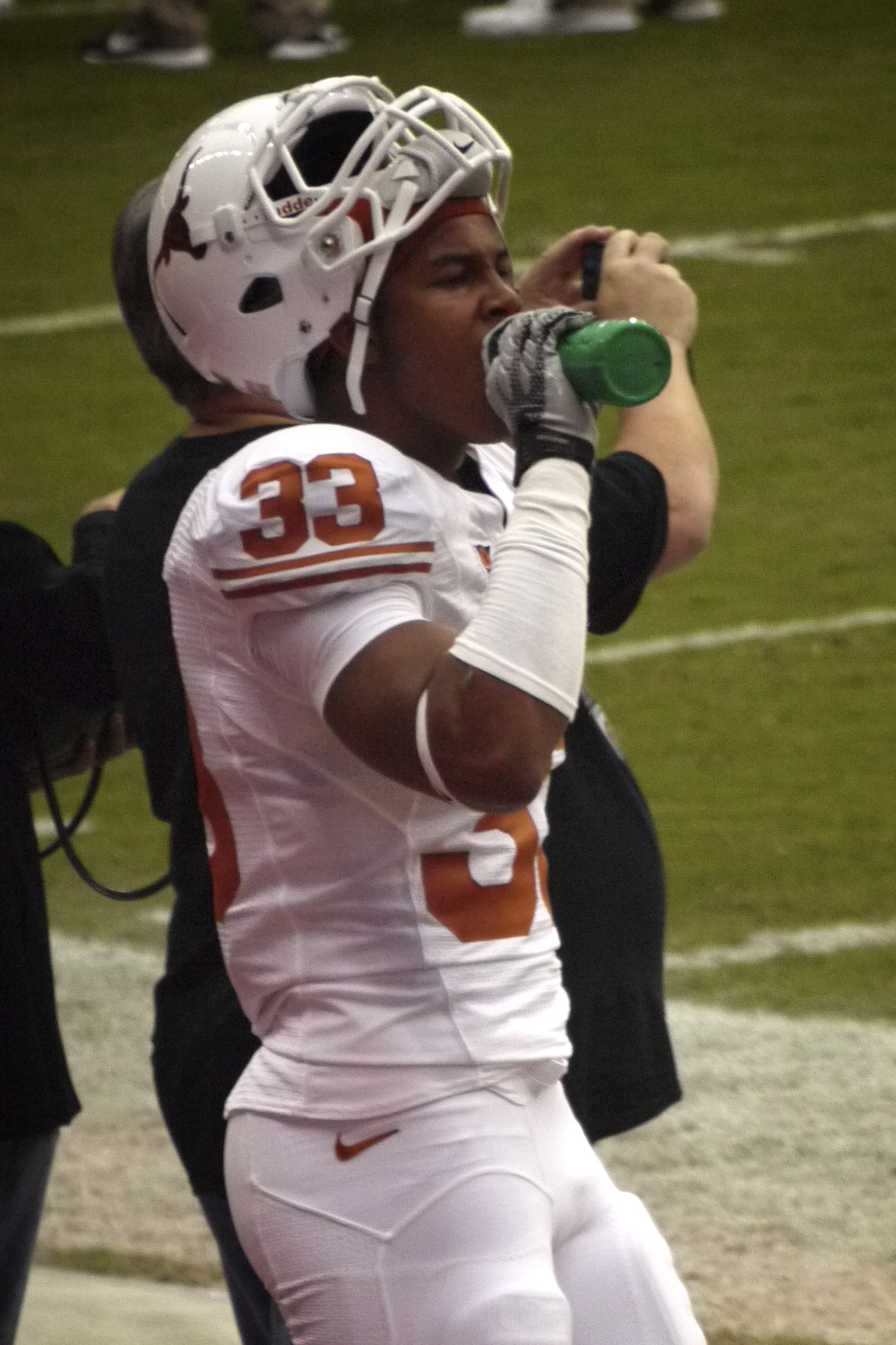 Jordan Hicks takes a break during the 2010 Rice game.